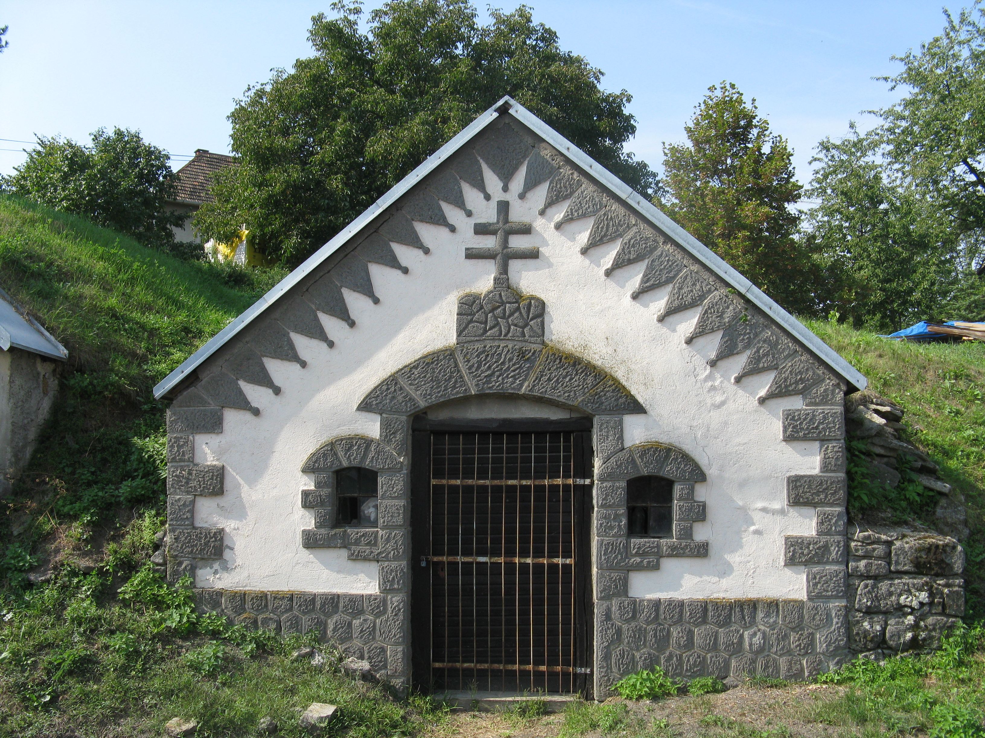 Village Brhlovce